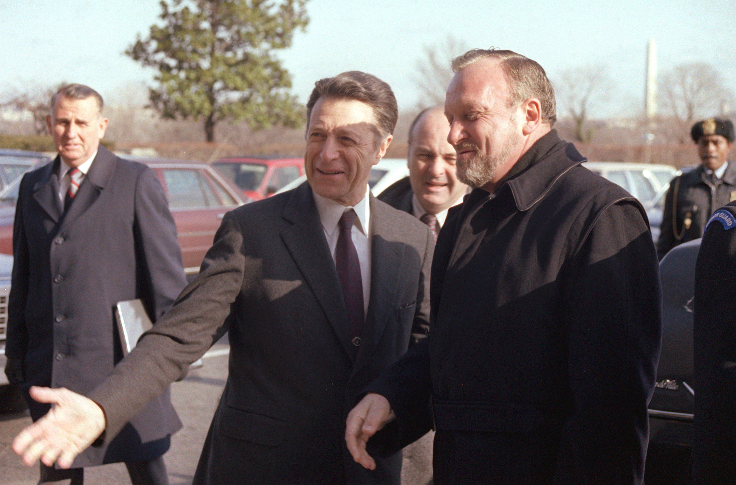 Caspar Weinberger, United States Secretary of Defense, and Charles Hernu, French Minister of Defense on 18 January 1983, outside the Pentagon in Washington, D.C..